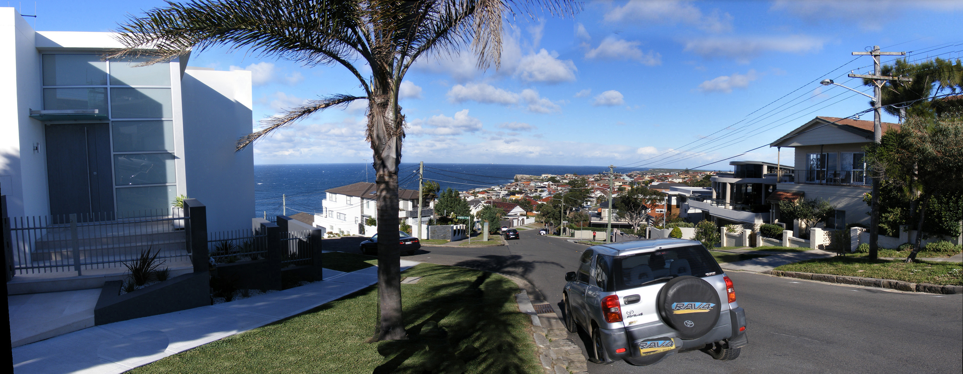 Dunning and Bloomfield Streets South Coogee, New South Wales